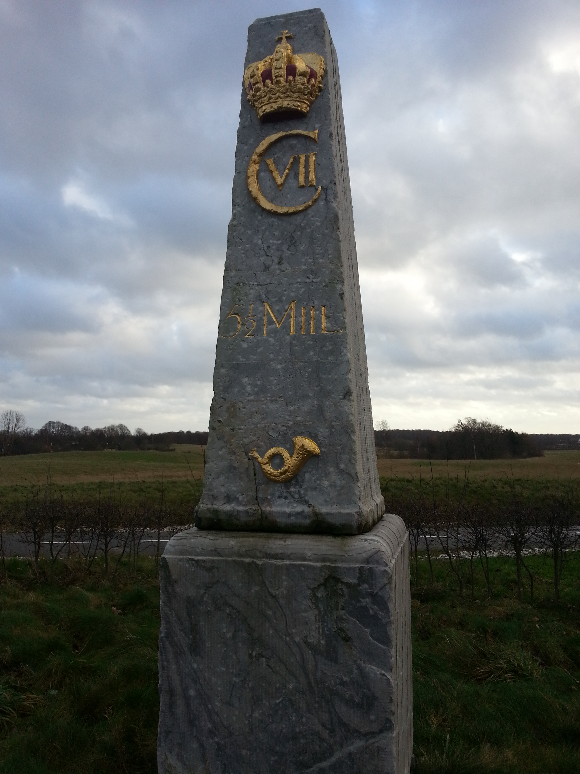 Milestone Kongevejen at Rørtang 1